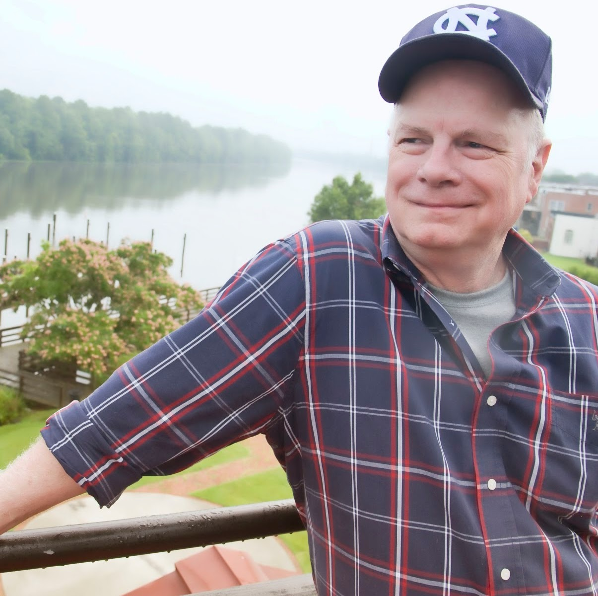 Photograph of Author/Journalist, Willie Drye